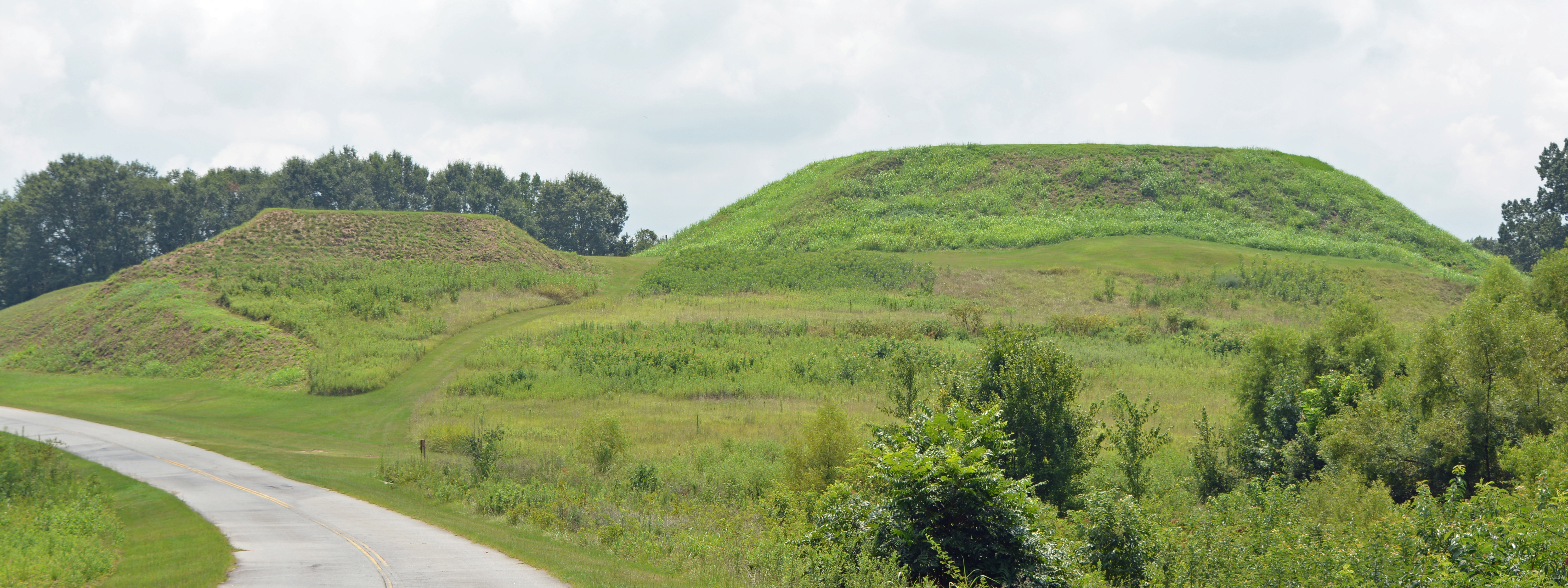 Mounds at Ocmulgee National Monument, Bibb County, Georgia, U.S. The Lesser Temple Mound (left) and the Great Temple Mound (right)